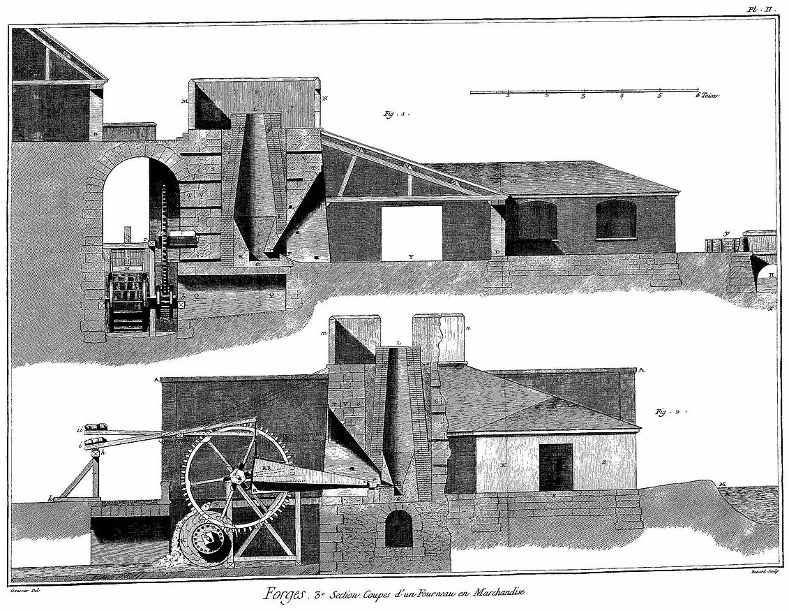 Planches de l'Encyclopédie de Diderot et d'Alembert, volume 3: Forges, 3rd section, Pl. II.